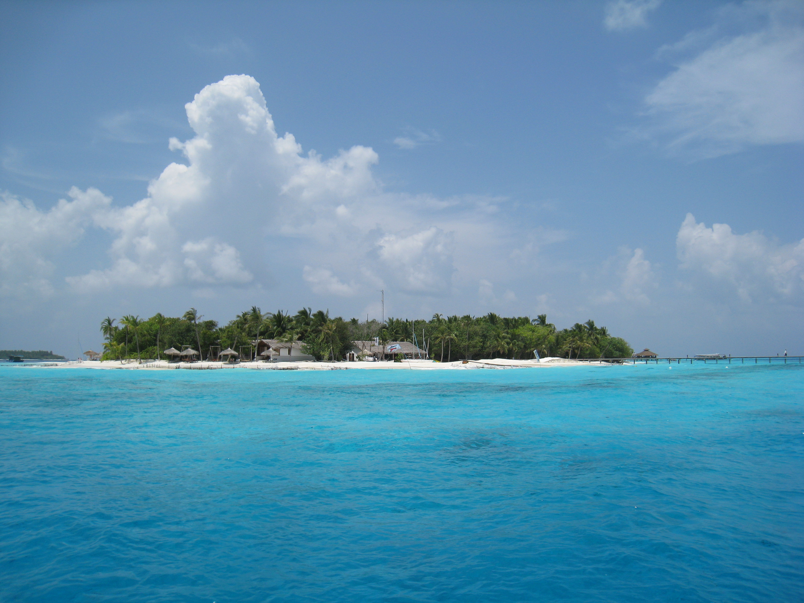 Fonimagoodhoo (Reethi Beach), Maldives